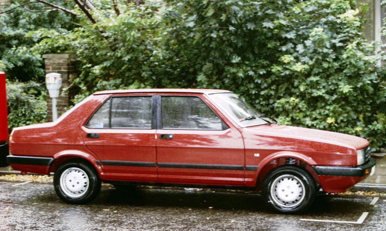 Seat Malaga when very very new in profile in rain